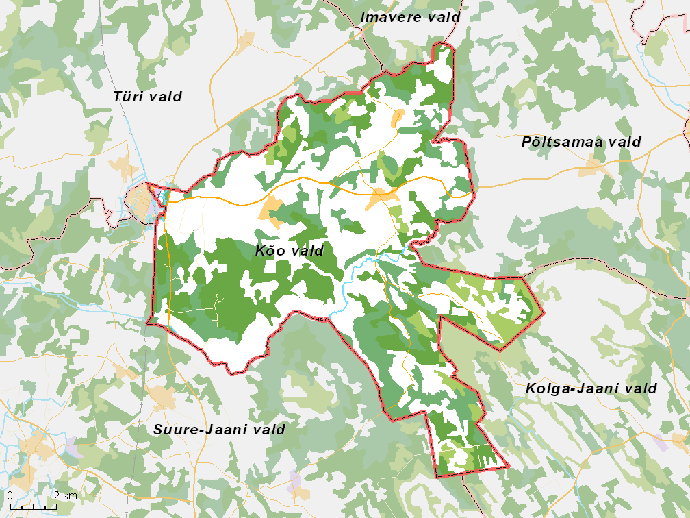 Map of municipality in Estonia